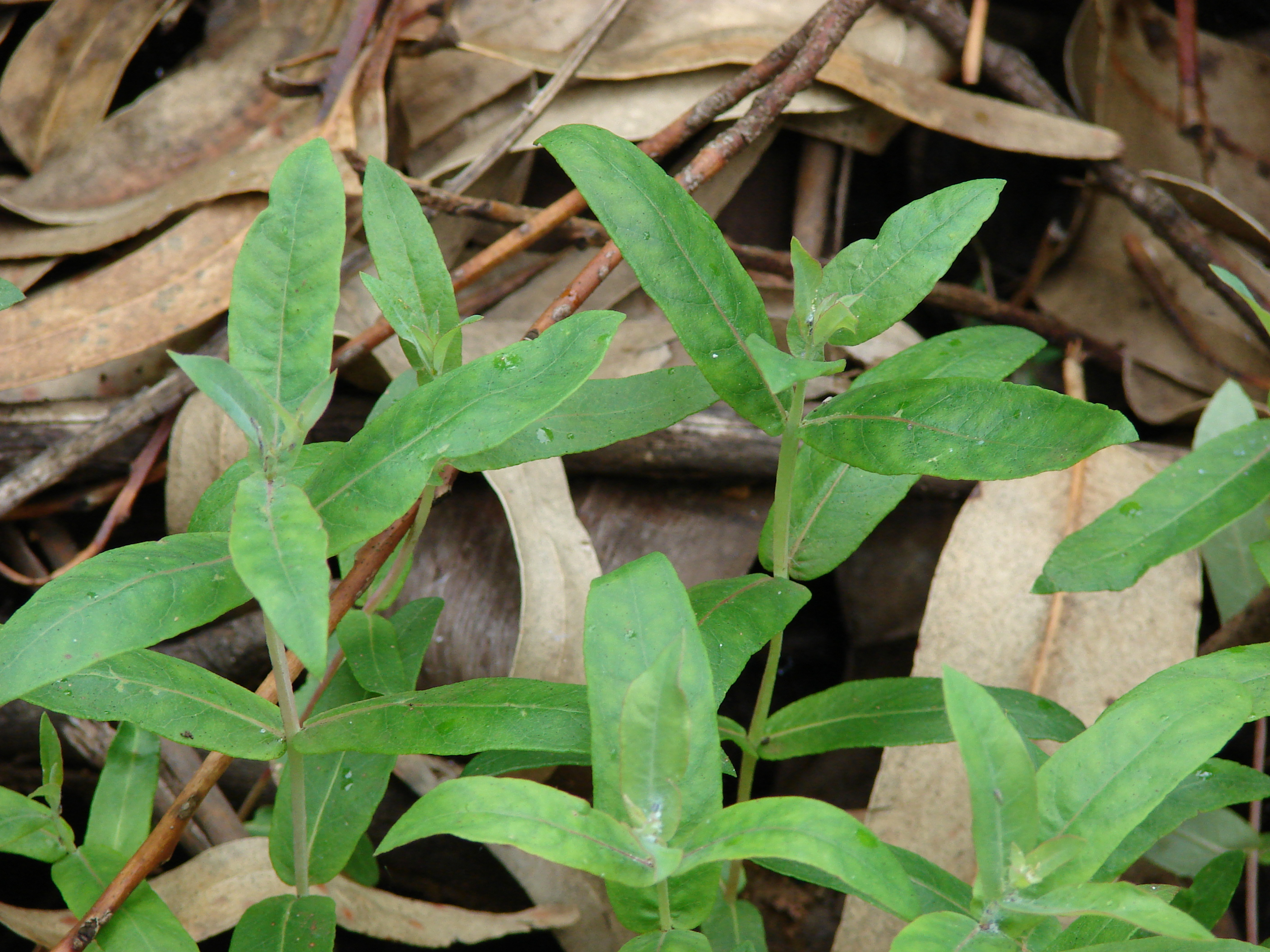 Eucalyptus globulus (seedlings germinating after fire). Location: Maui, Polipoli